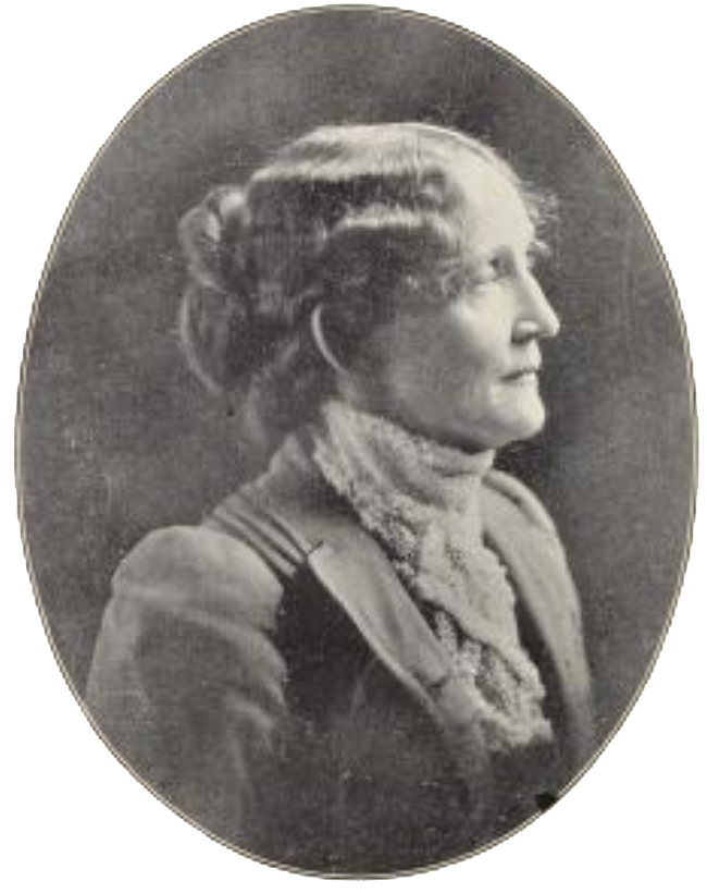 Portrait of Theodosia Burr Shepherd, ca. 1902, from the frontispiece of her catalog, Mrs. Theodosia B. Shepherd's descriptive catalogue of flowers : plants, bulbs, seeds cacti etc